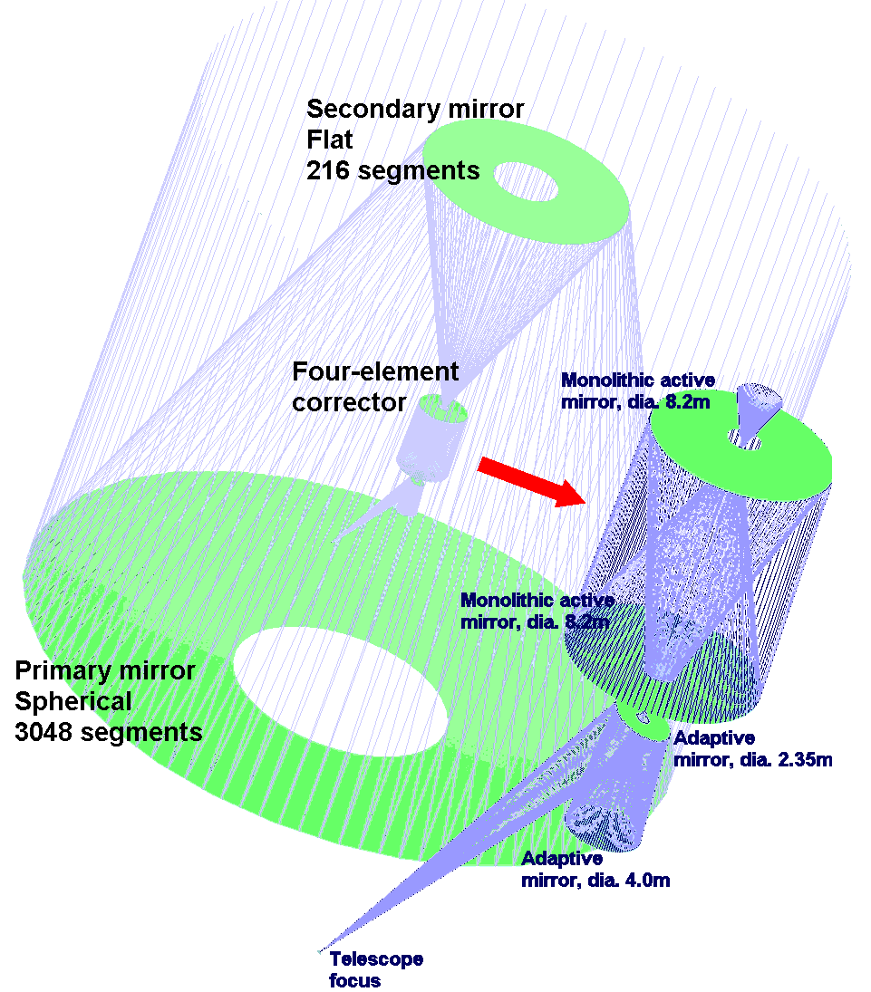 Optical Design of the Overhelming Large Telescope (OWL)